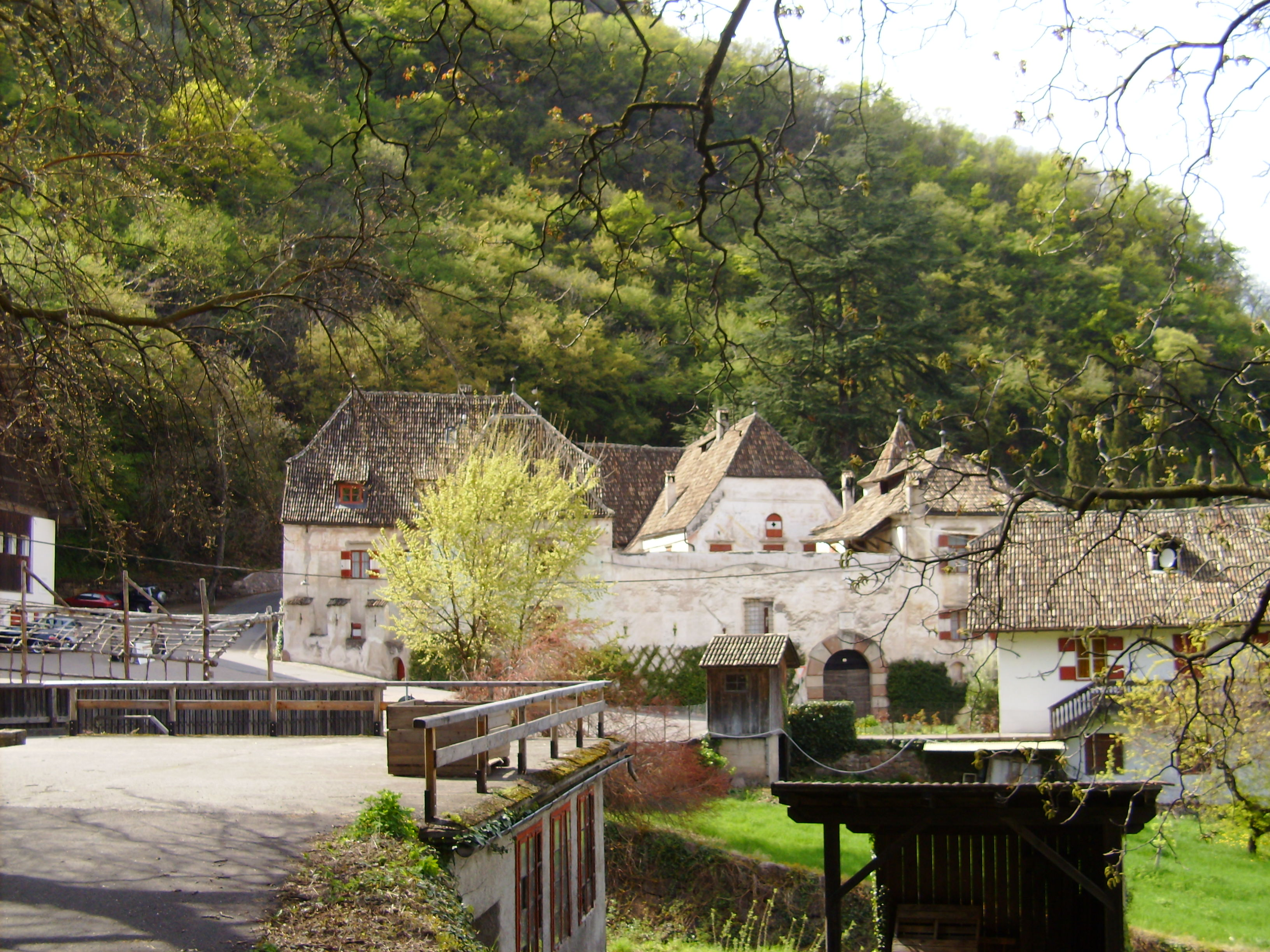 Swan Castle in Nalles/Nals (South Tyrol)